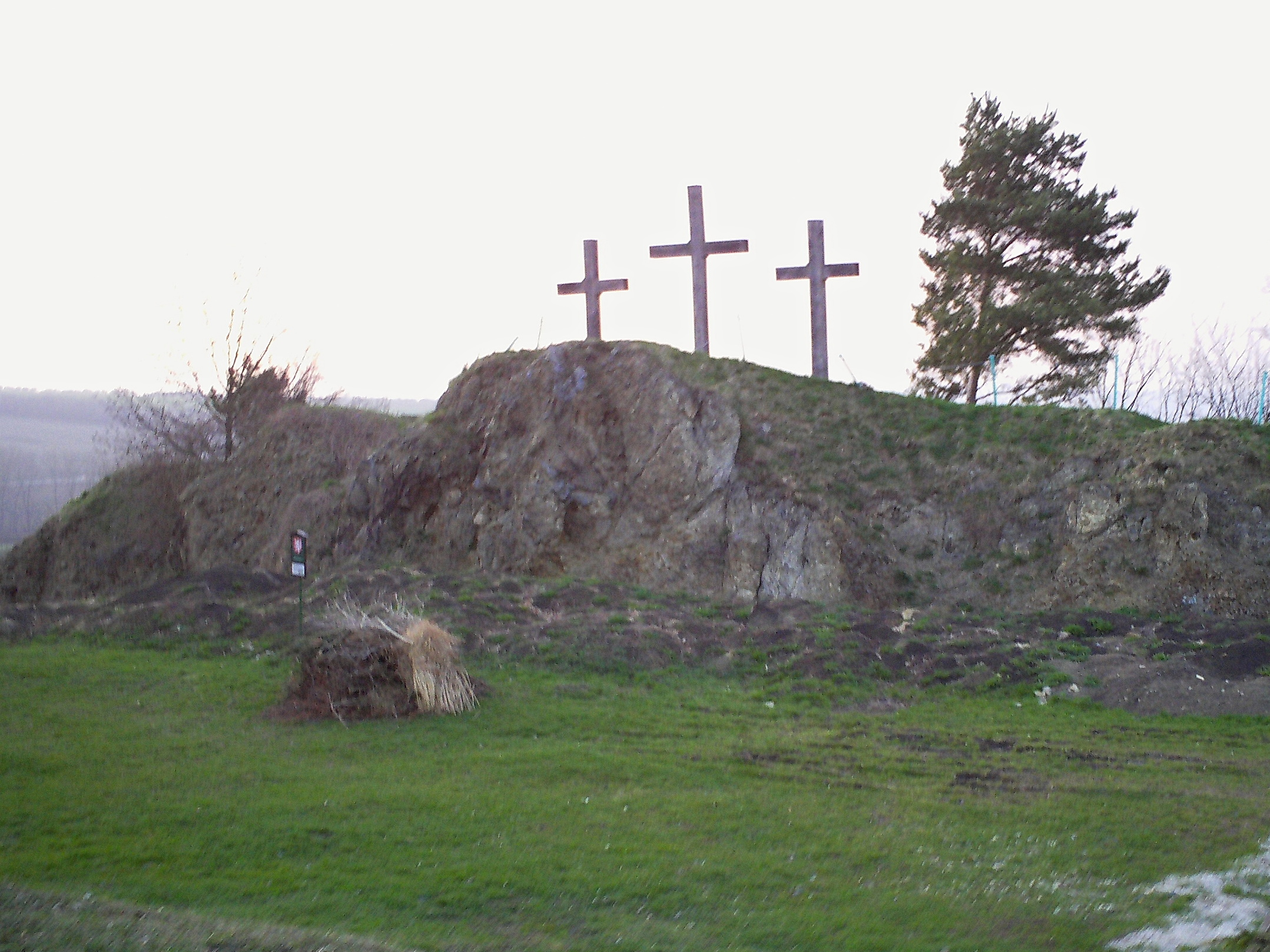 Bánov in Uherské Hradiště District, Czech Republic. Three crosses on the place of former castle.